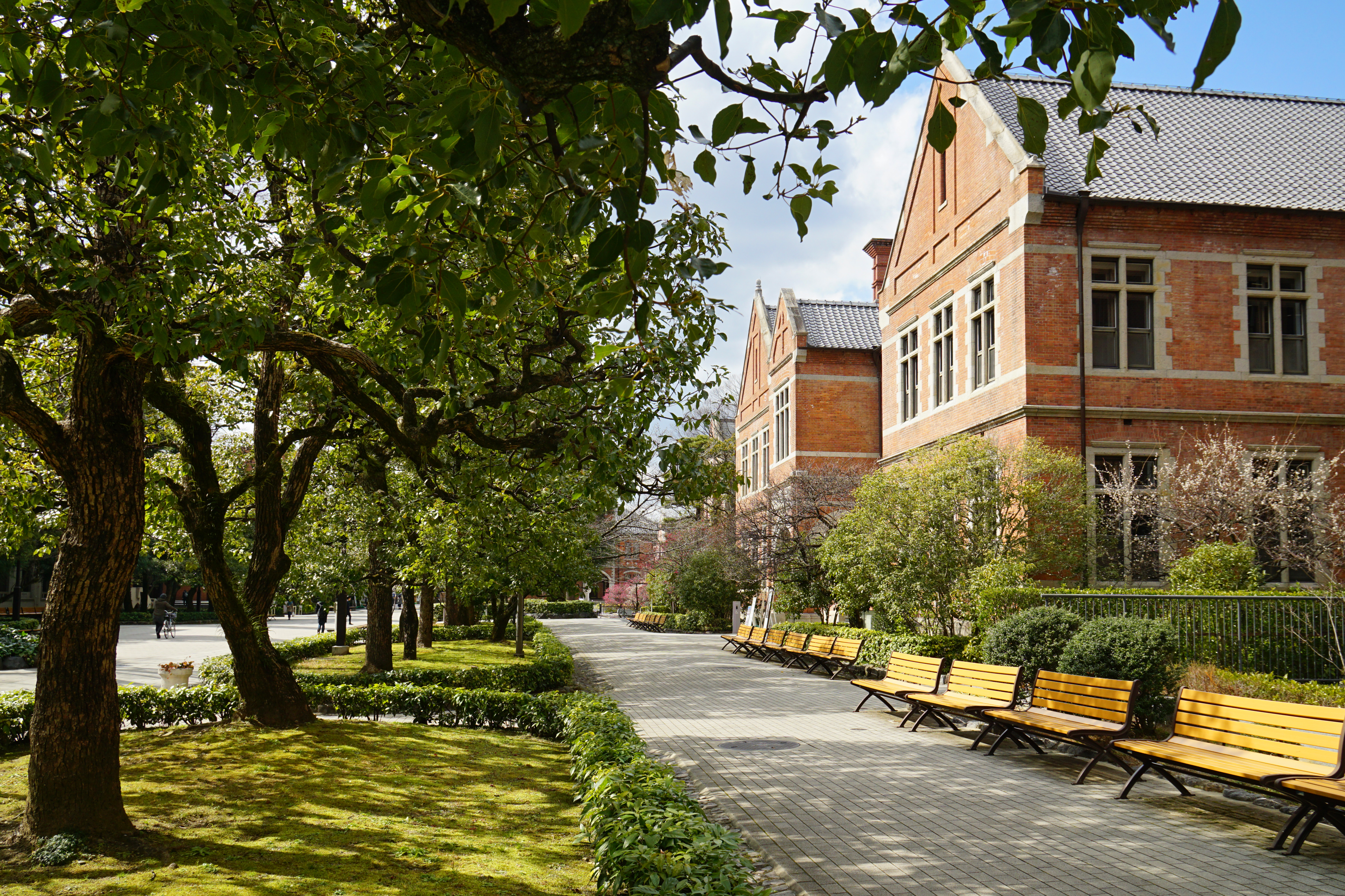 Doshisha University Imadegawa Campus in Kyoto, Kyoto prefecture, Japan